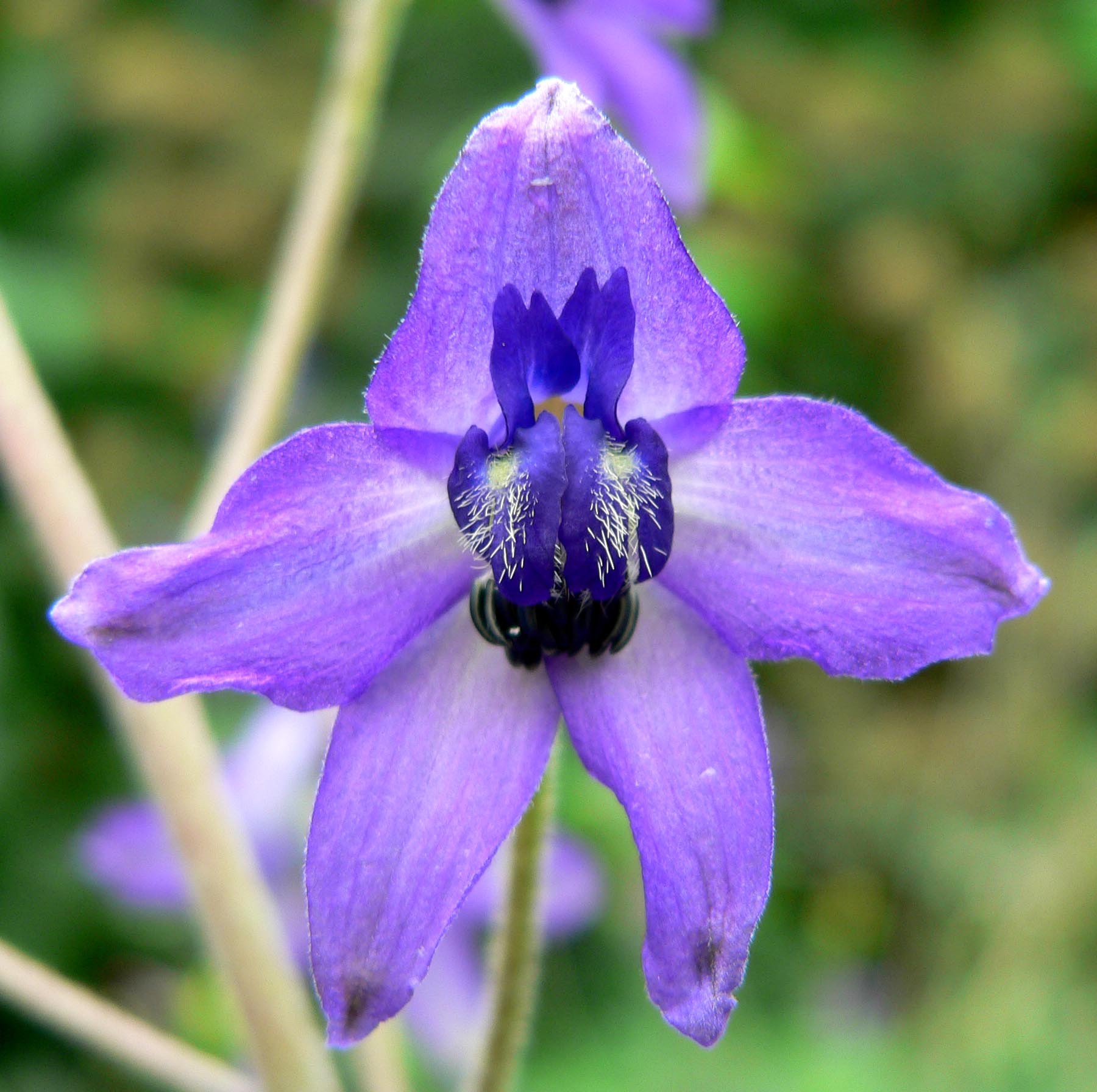 Photo of Delphinium ceratophorum at the UBC Botanical Garden in Vancouver